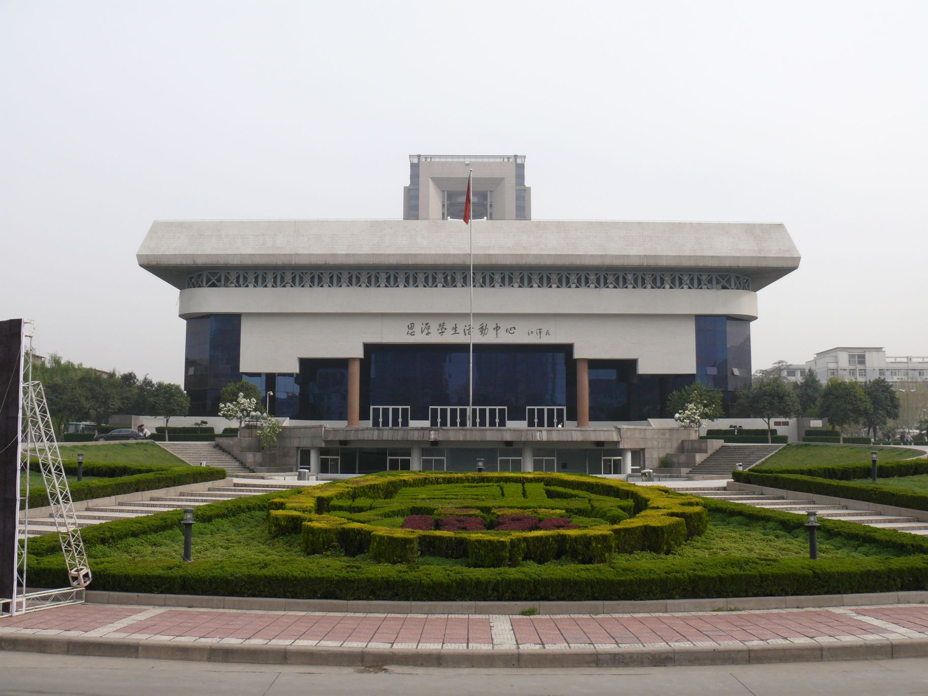 South (main) entrance gate of Xi'an Jiaotong University (Shaanxi, China)